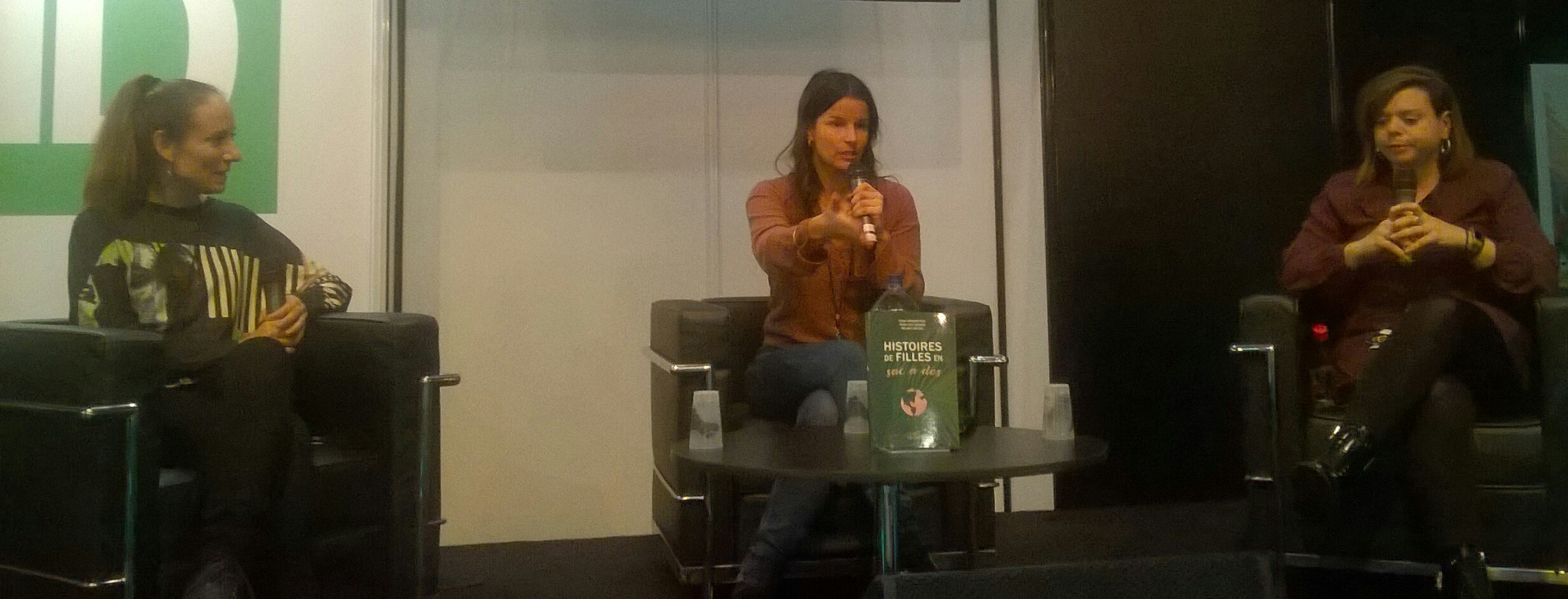 Nadia Lakhdari King, Mélanie Leblanc & Marie-Julie Gagnon photographed in Montréal , Québec, Canada at the Salon du livre de Montréal 2018.